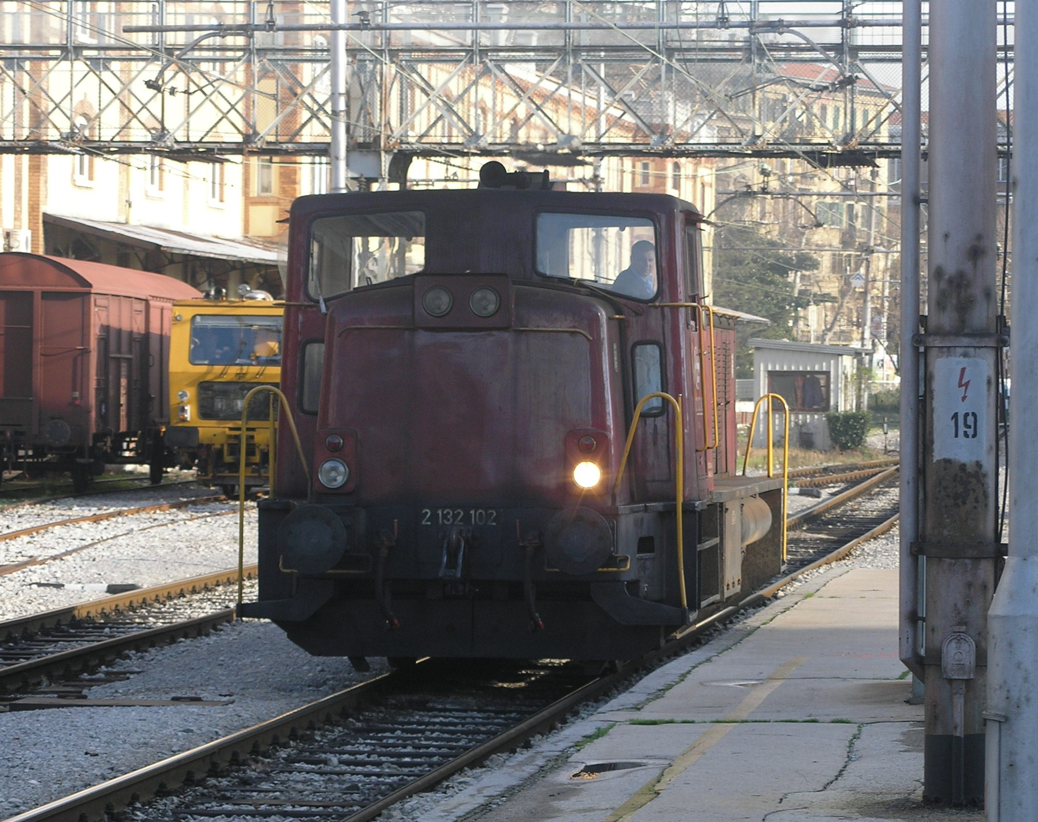 An HŽ 2132-1 series locomotive in Rijeka, Croatia